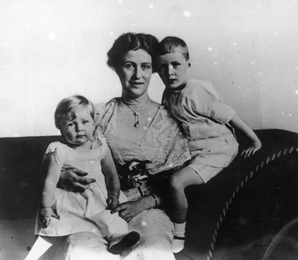 Bertha Krupp with her sons Alfried (right, * 1907) and Claus (* 1910), ca. 1912.